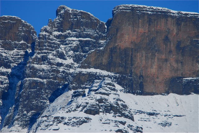 Cliffs in the Ukhahlamba Drakensburg, South Africa.